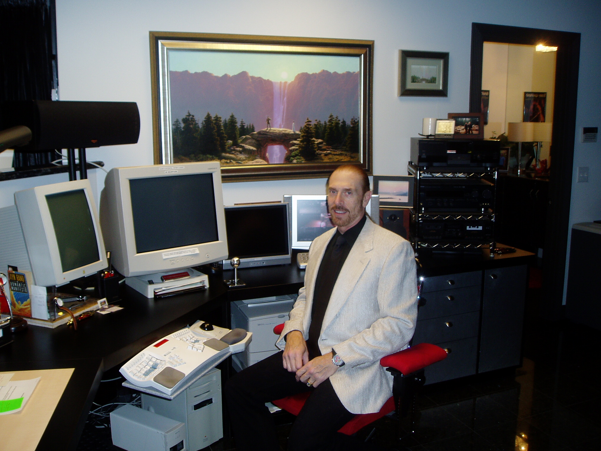 Mystar1959 is webmaster of .